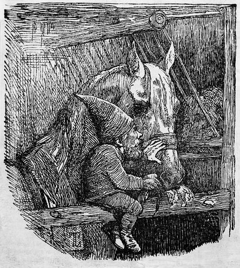 Engraving by Andreas Flinch based on a drawing of a "nisse" by Danish artist Johan Thomas Lundbye, published in Flinchs Almanak 1842.